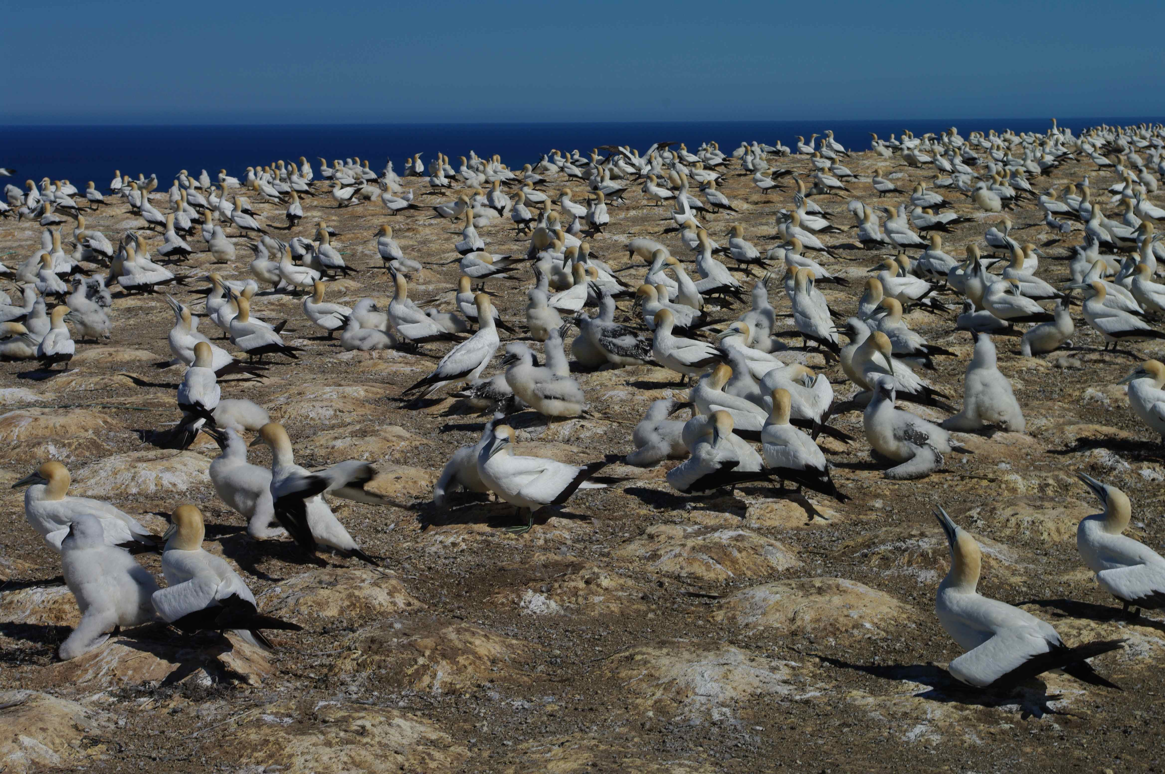 Gannet Colony at Cape Kidnappers - Hawkes Bay Region, New Zealand